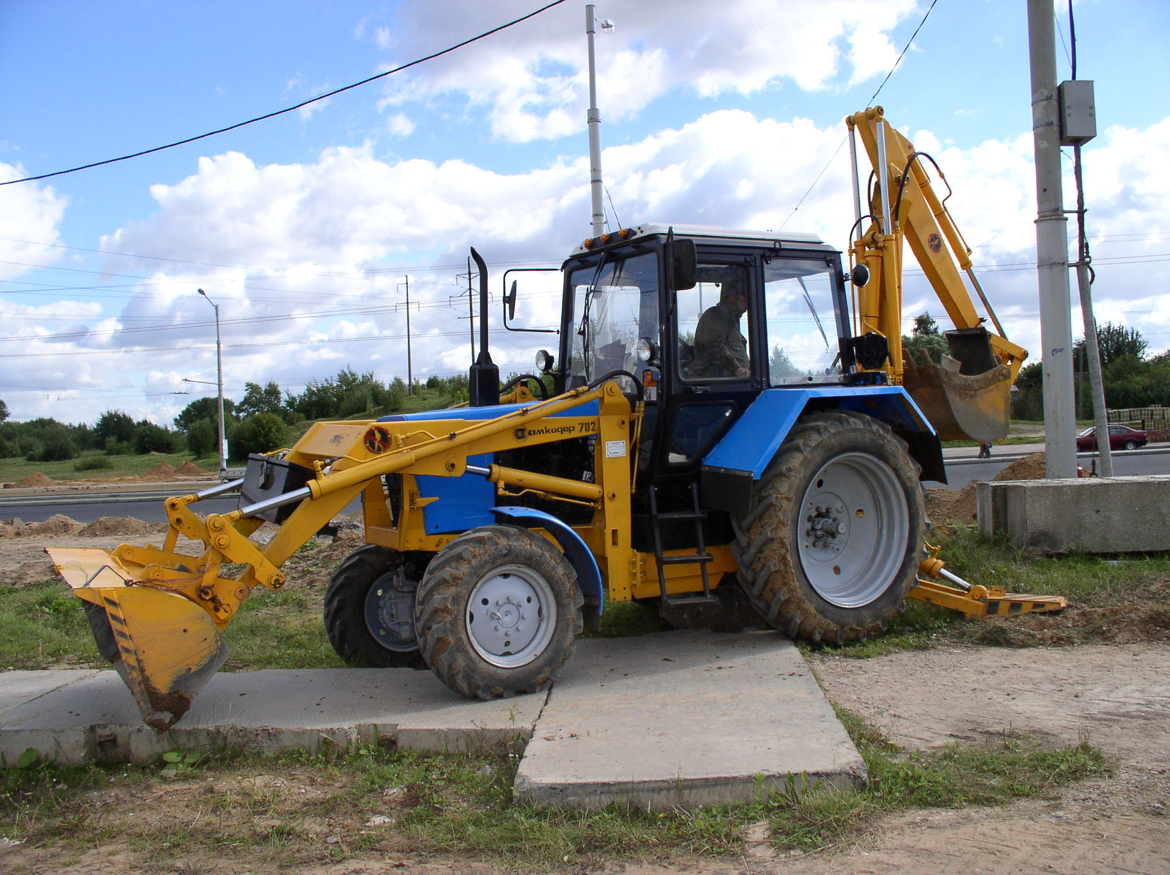 Tractor "Belarus", frontloader/backhoe modification. Minsk, Belarus.